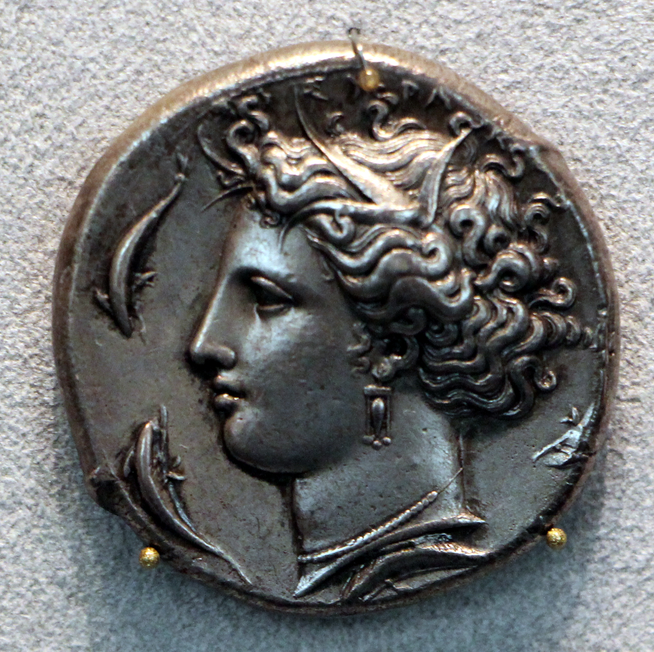 Ancient Greek coins in the Altes Museum Berlin